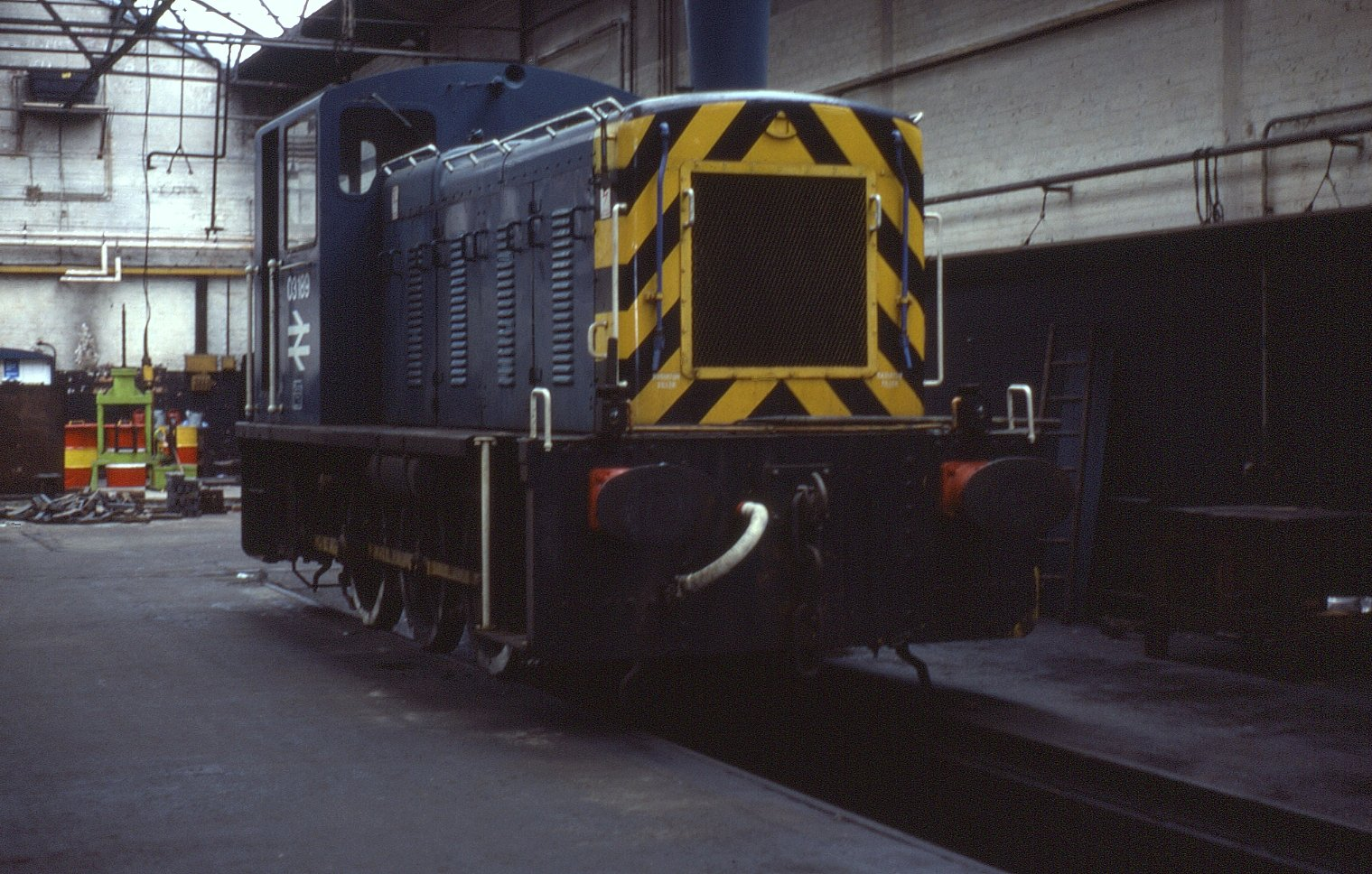 Blast from the past. Tucked away in the side streets of Birkenhead was a former steam shed on the docks branch. Right up to closure in 1985 the depot serviced diesel locos including a fleet of class 03 shunters. An example is seen here on 24 September 1983, 03189.